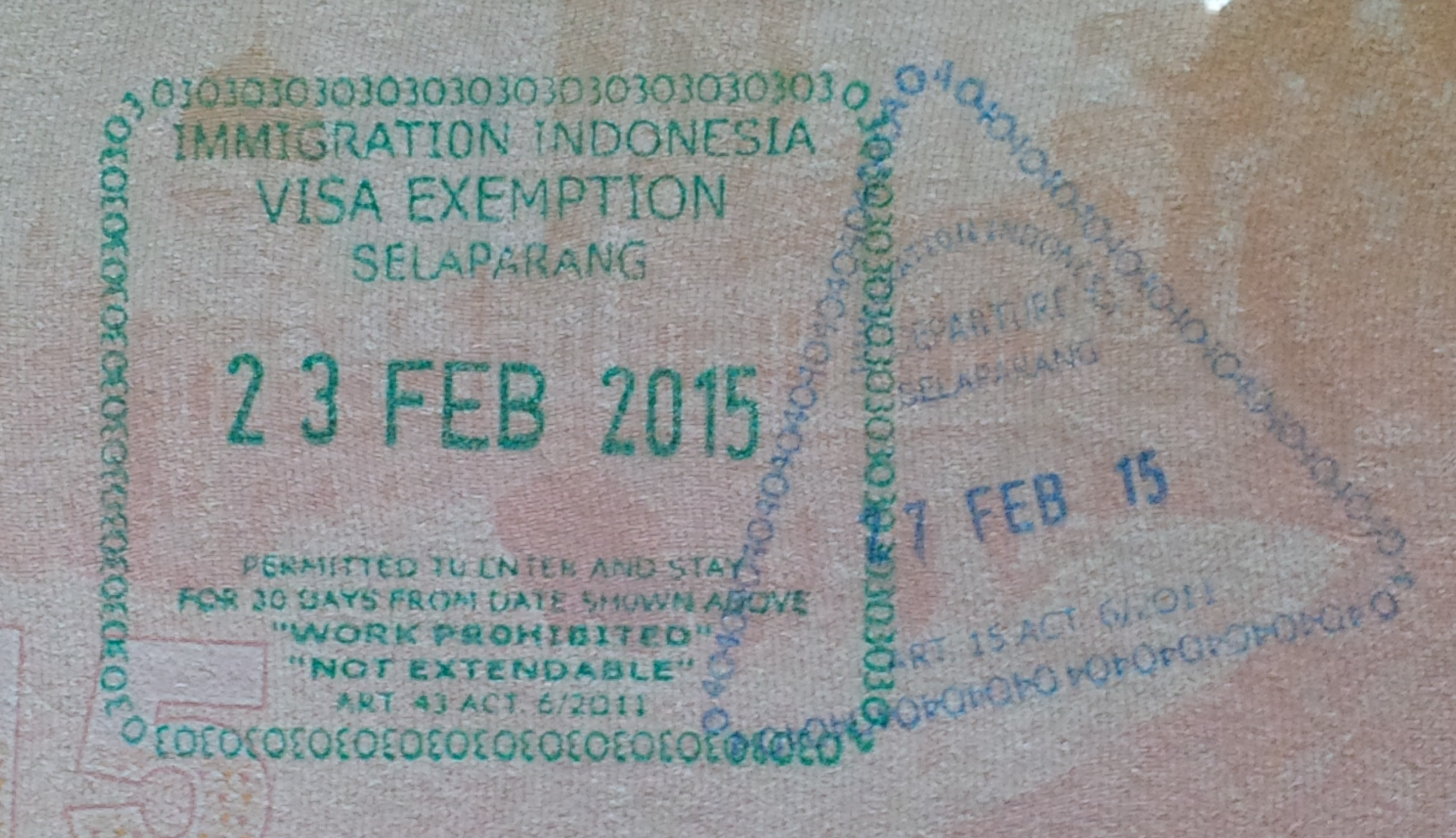 Entry and exit passport stamps at Lombok International Airport. Note that they still bear the name of the old airport, Selaparang.